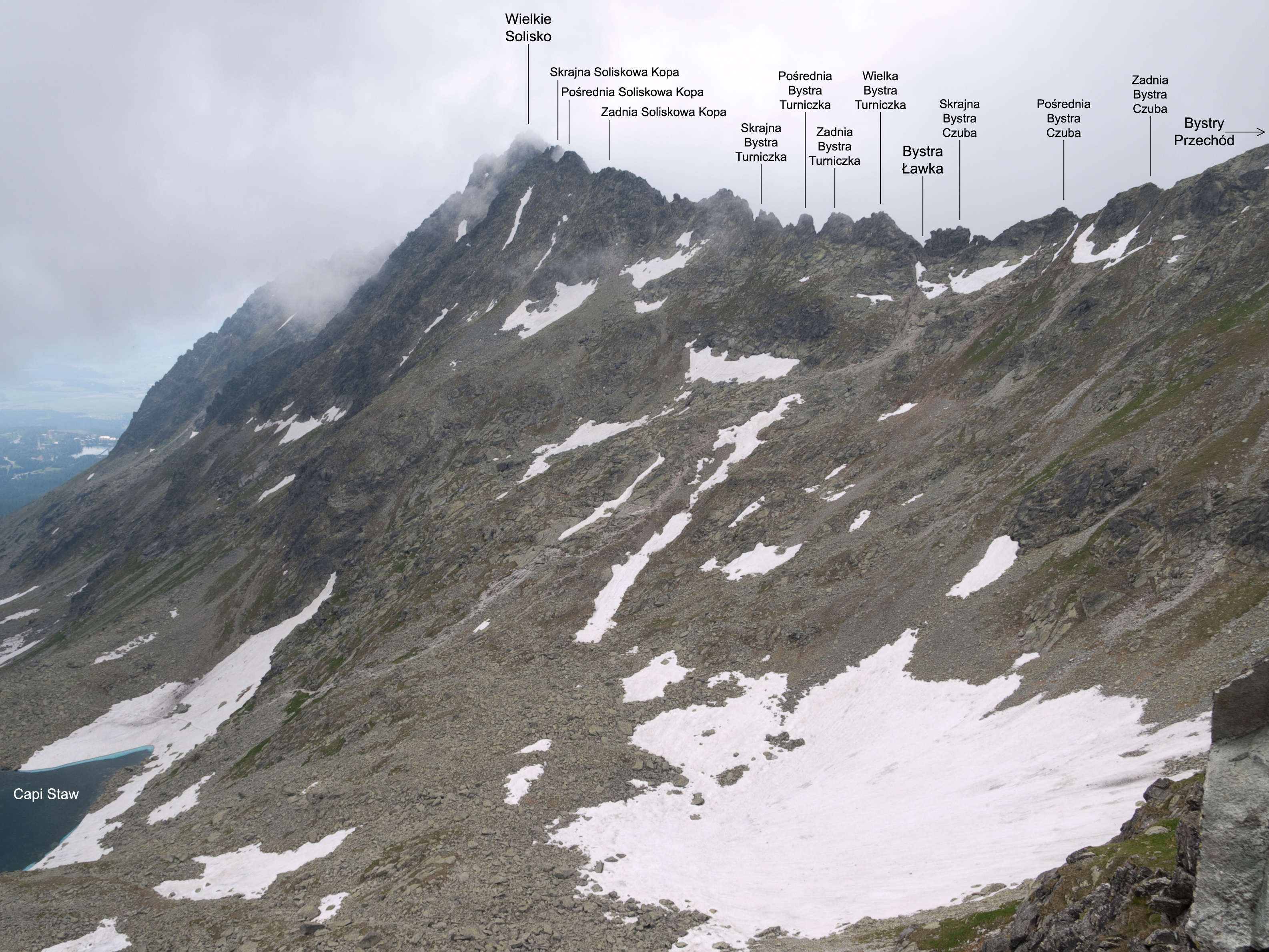 Northern part of Solisko Ridge – Soliskové kopy, Bystré vežičky, Bystrá lávka and Bystré hrby (Polish captions).